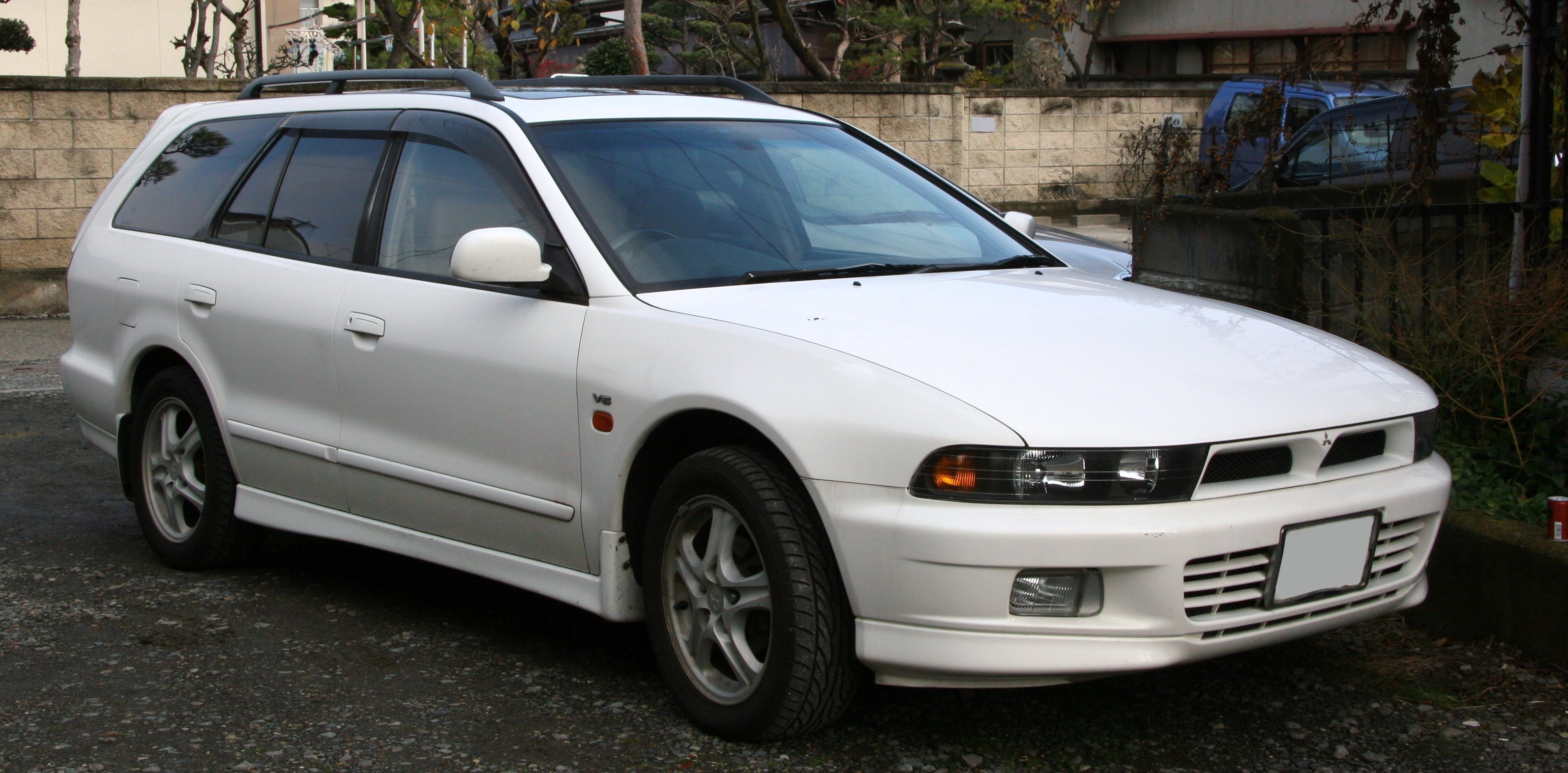 Mitsubishi Legnum